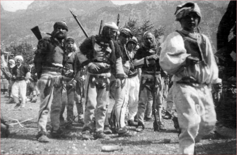 ED012_RAI 400.13203 Albania. Bzheta. Tribesmen visiting the feast of Saint Nicholas at Bzheta in Shkreli territory (Photo: Edith Durham, 10 May 1908).